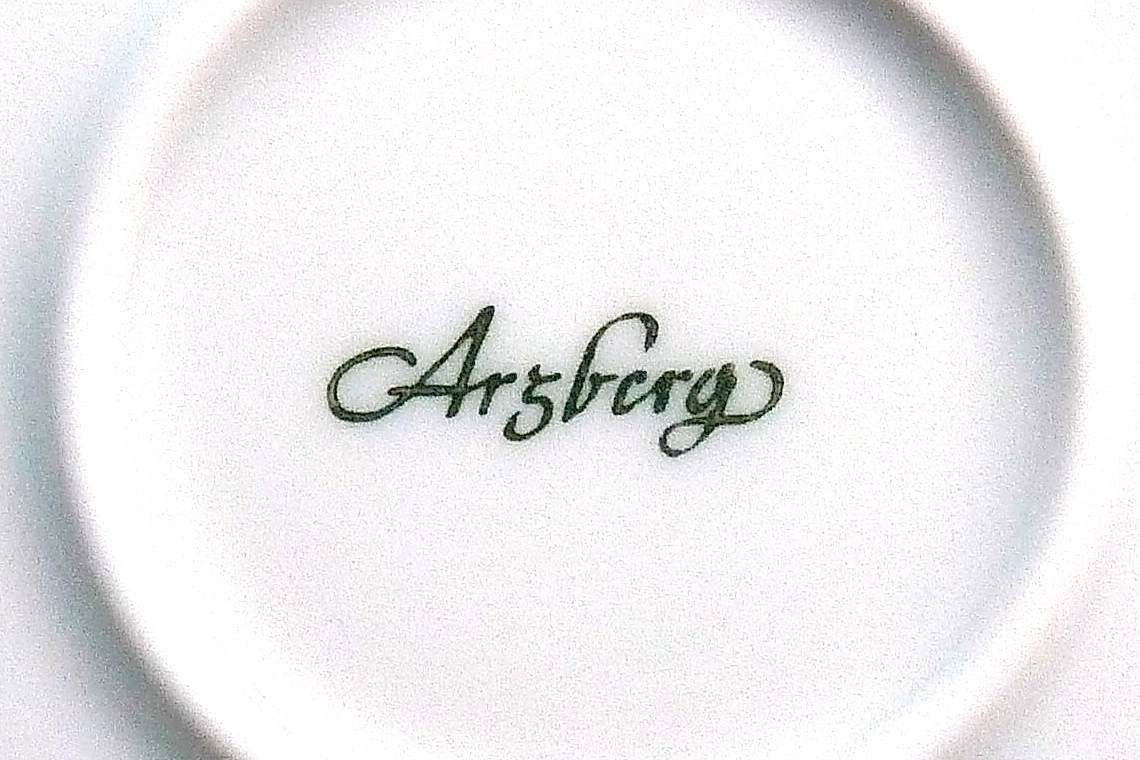 Arzberg porcelain manufacturer, trademark, 1950s and 1960s